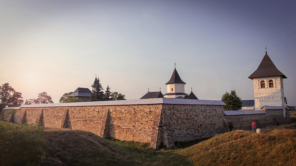 Zamca Monastery in Suceava.